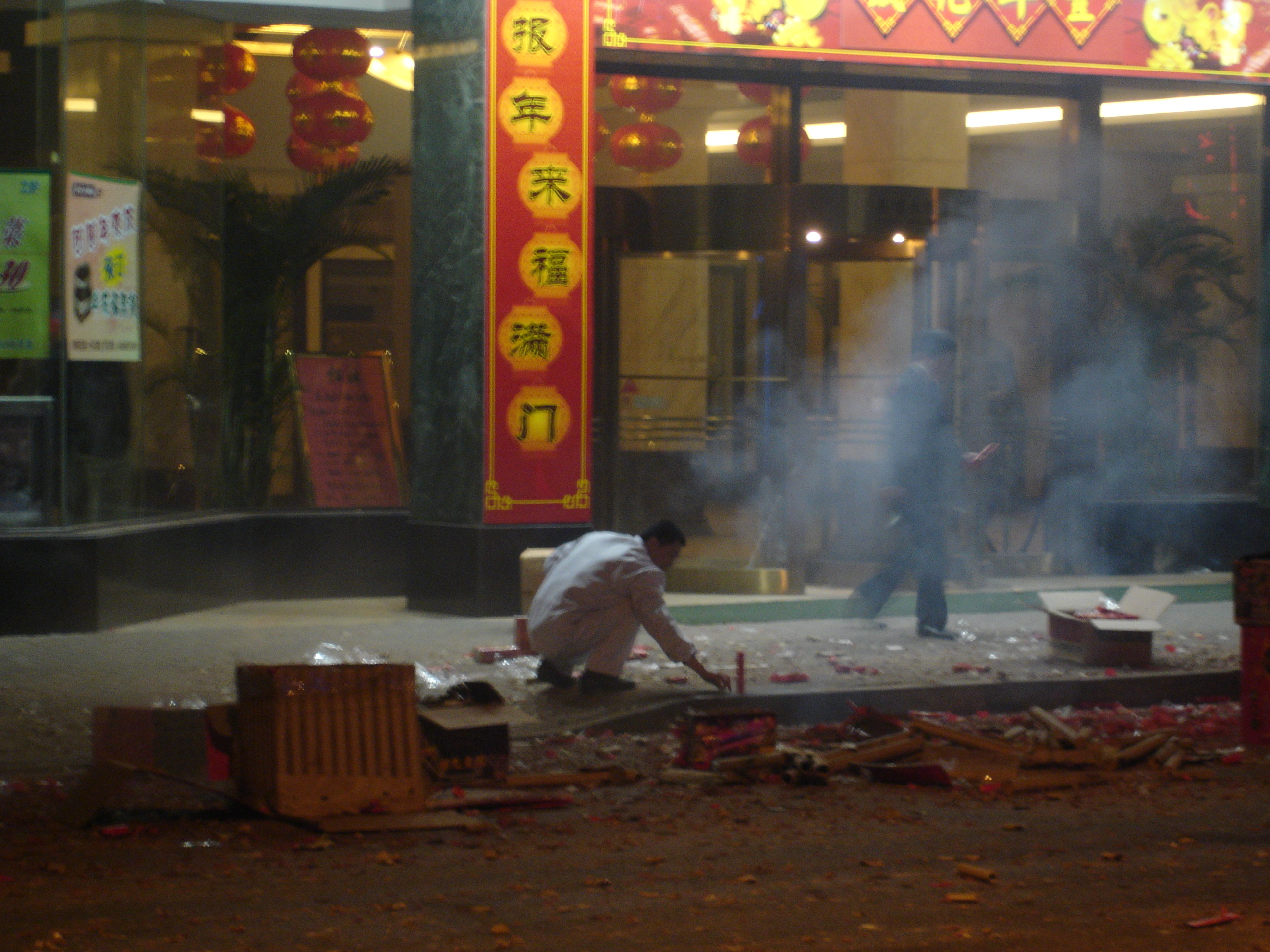 Local man setting off a firework in downtown Shanghai, during Chinese New Year.